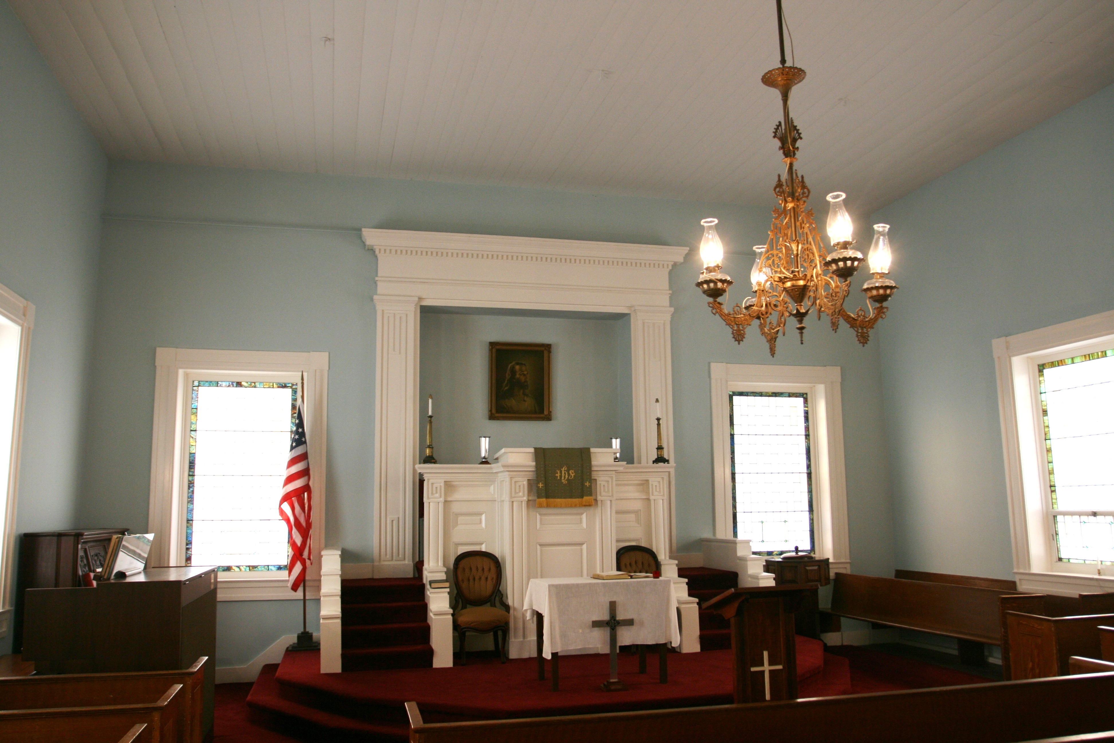 Interior of Old Hebron Lutheran Church in Intermont, Hampshire County, West Virginia.